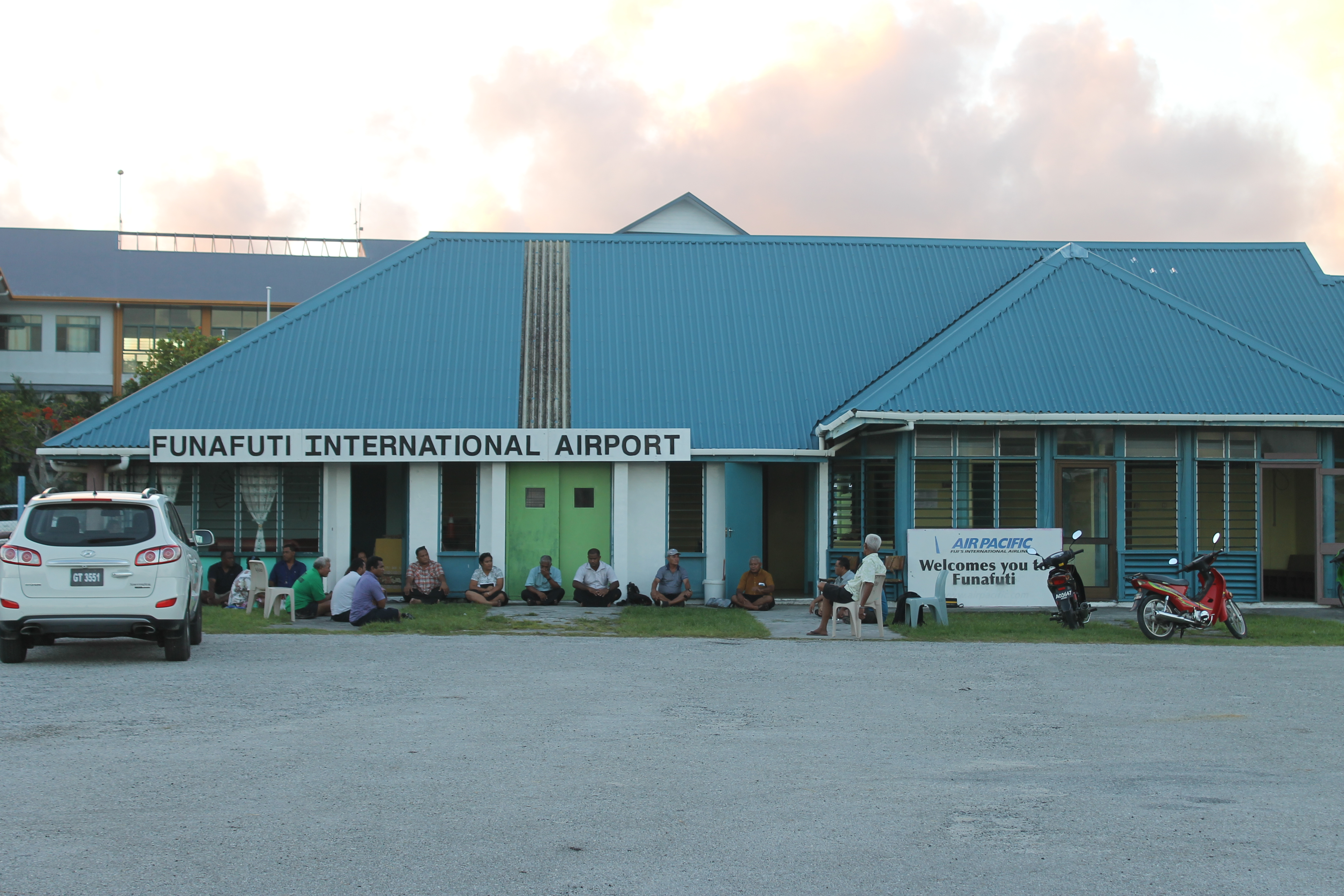 Funafuti International Airport terminal building